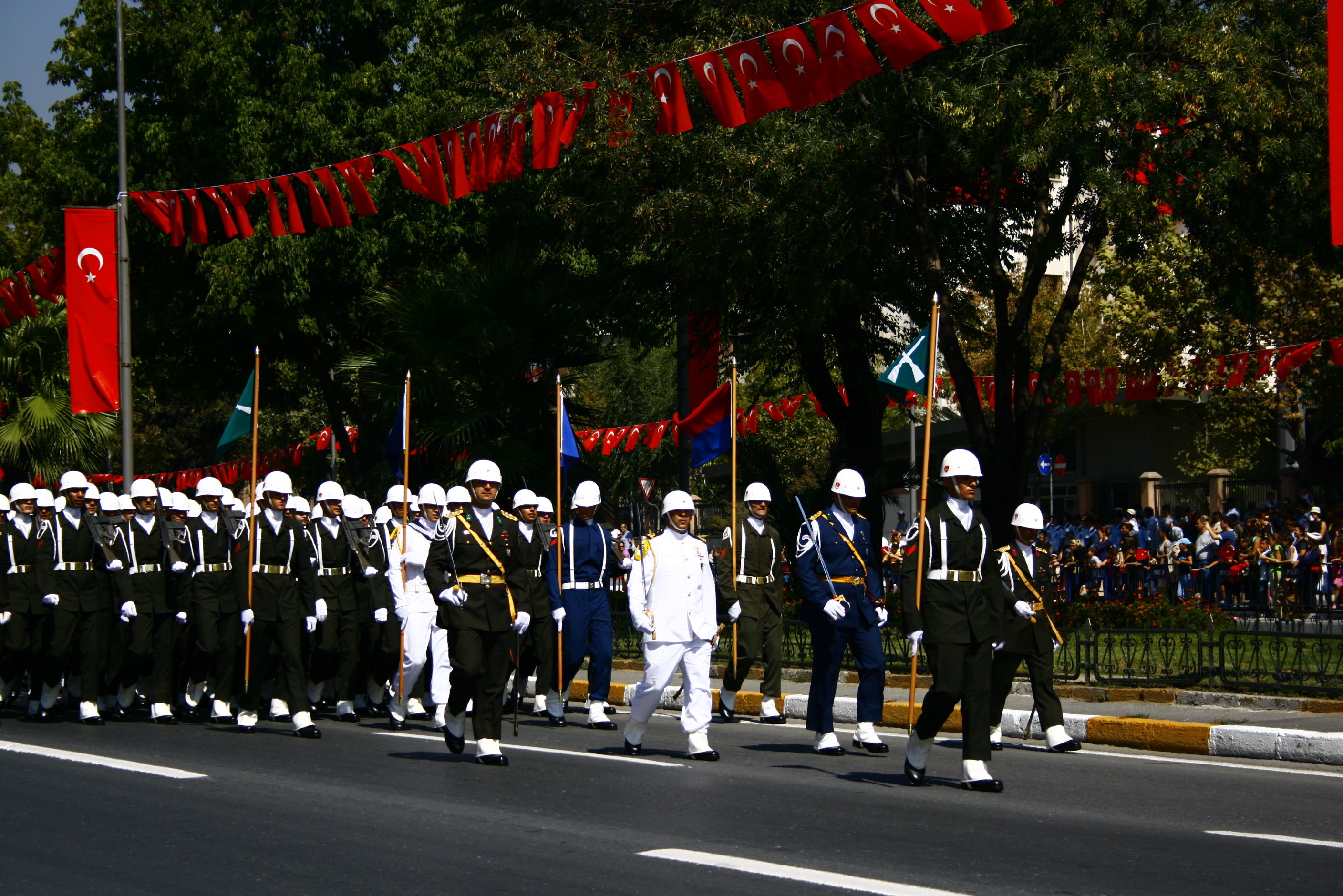 Parade zum Tag des Sieges 30. August 2007 / Parade on the Victory Day on August 30 in Turkey